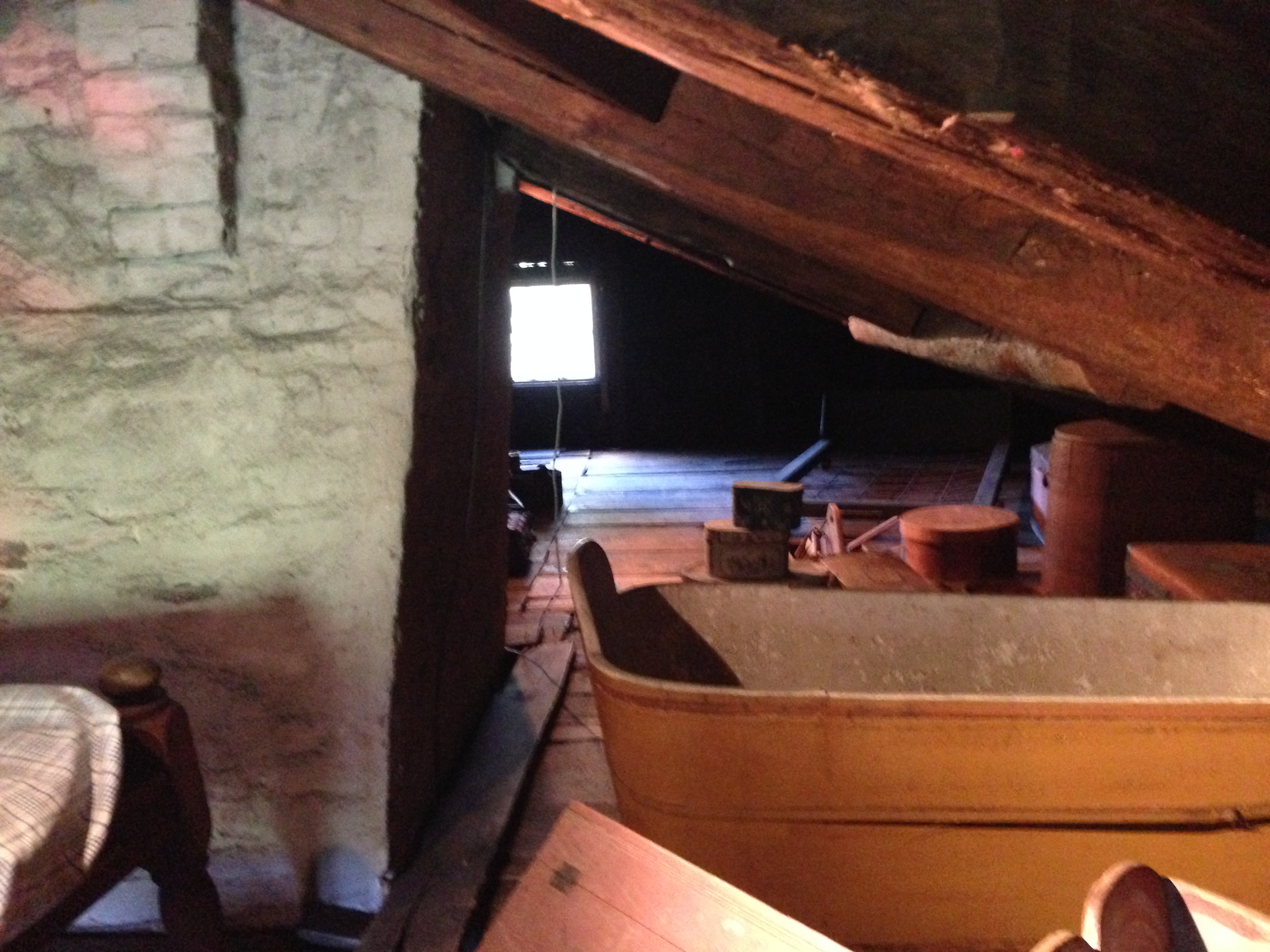 Attic at the Alcott House at Fruitlands, Harvard, Massachusetts, 2015